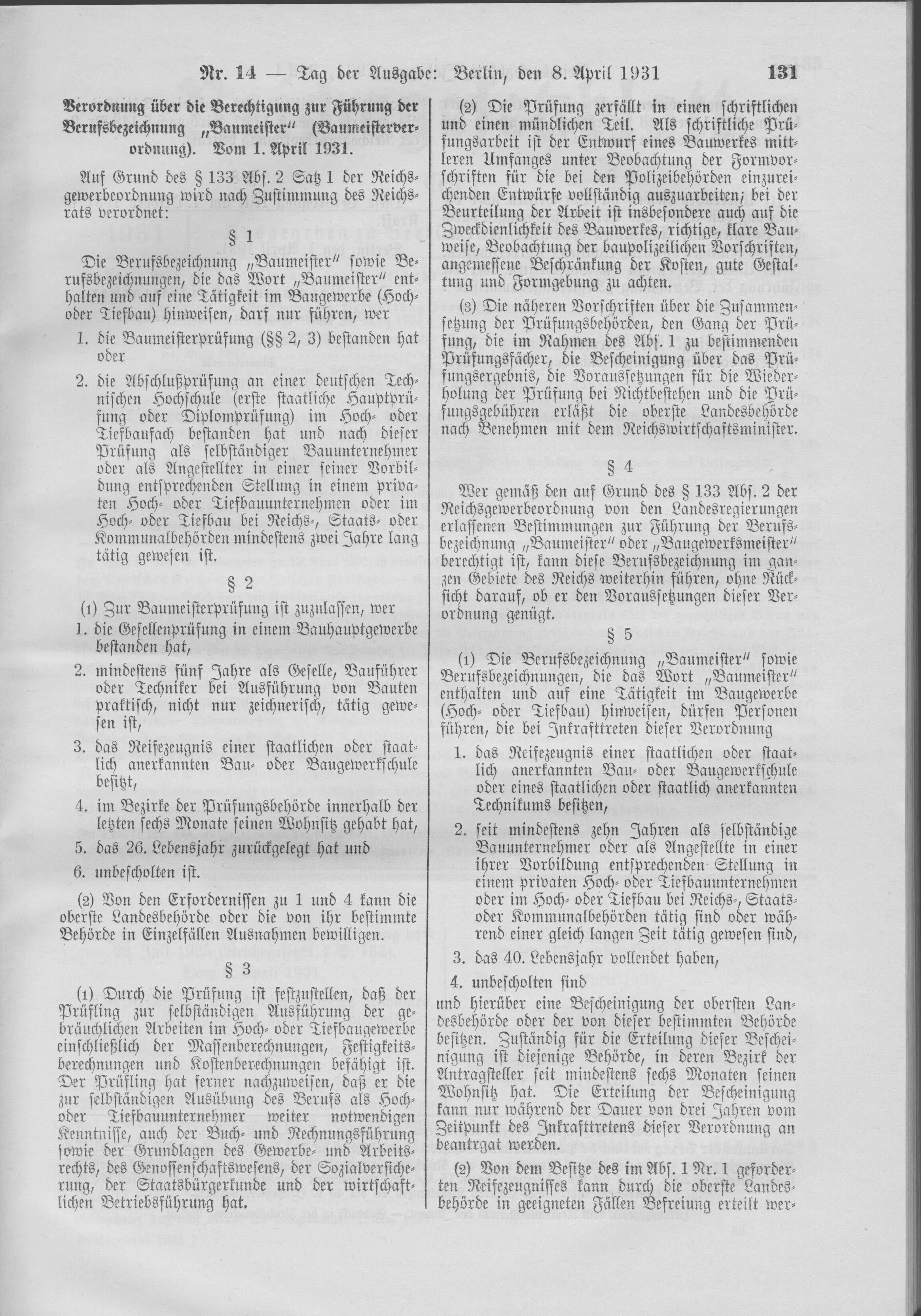 Scan from the Imperial Law Gazette of Germany, 1931, part 1